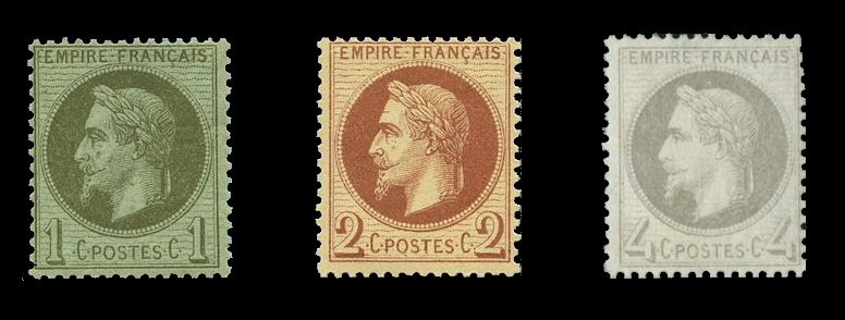 key words :Philatély France Napoleon stamps 1860 1870